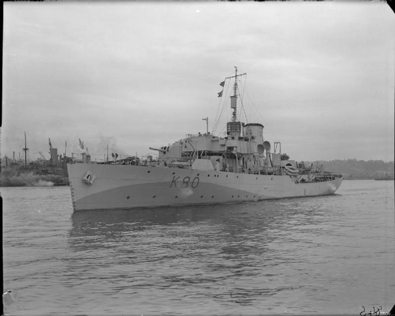 British Flower class corvette HMS BLUEBELL underway on the Tyne.